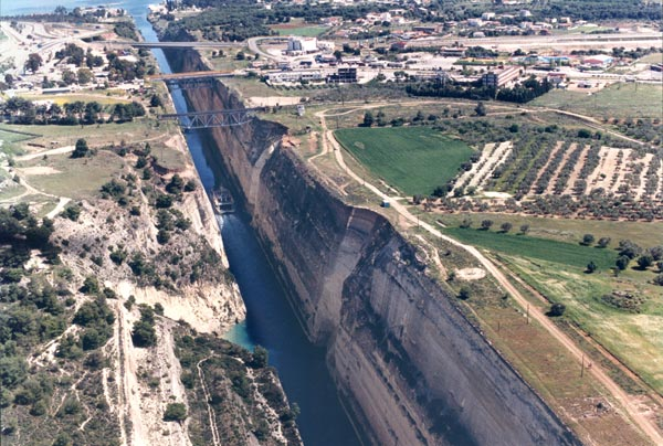 The Canal cutting through the Isthmus of Corinth, Greece